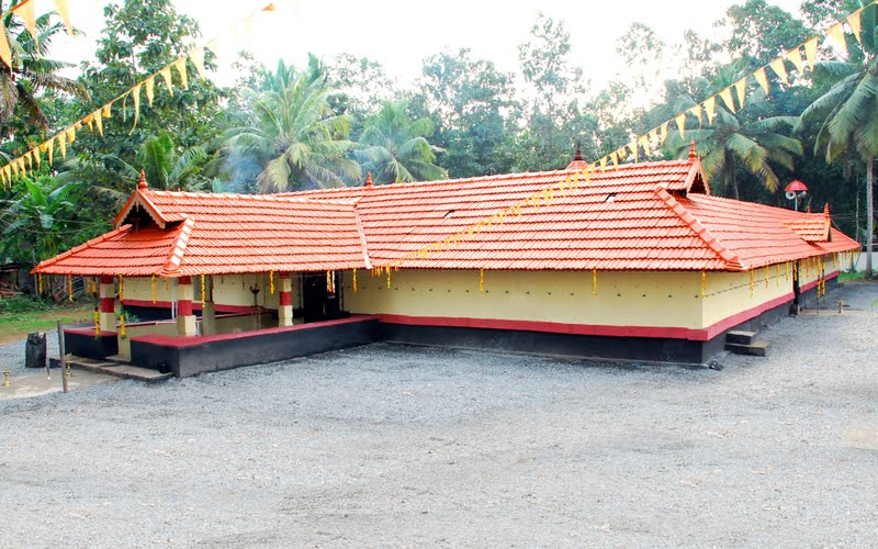 THRIKKAYIL TEMPLE - RENOVATED PHOTO